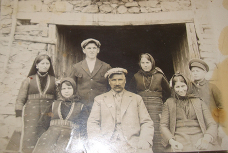 Family picture of Iliya Kurchovaliyata and Mito Dedoiliev